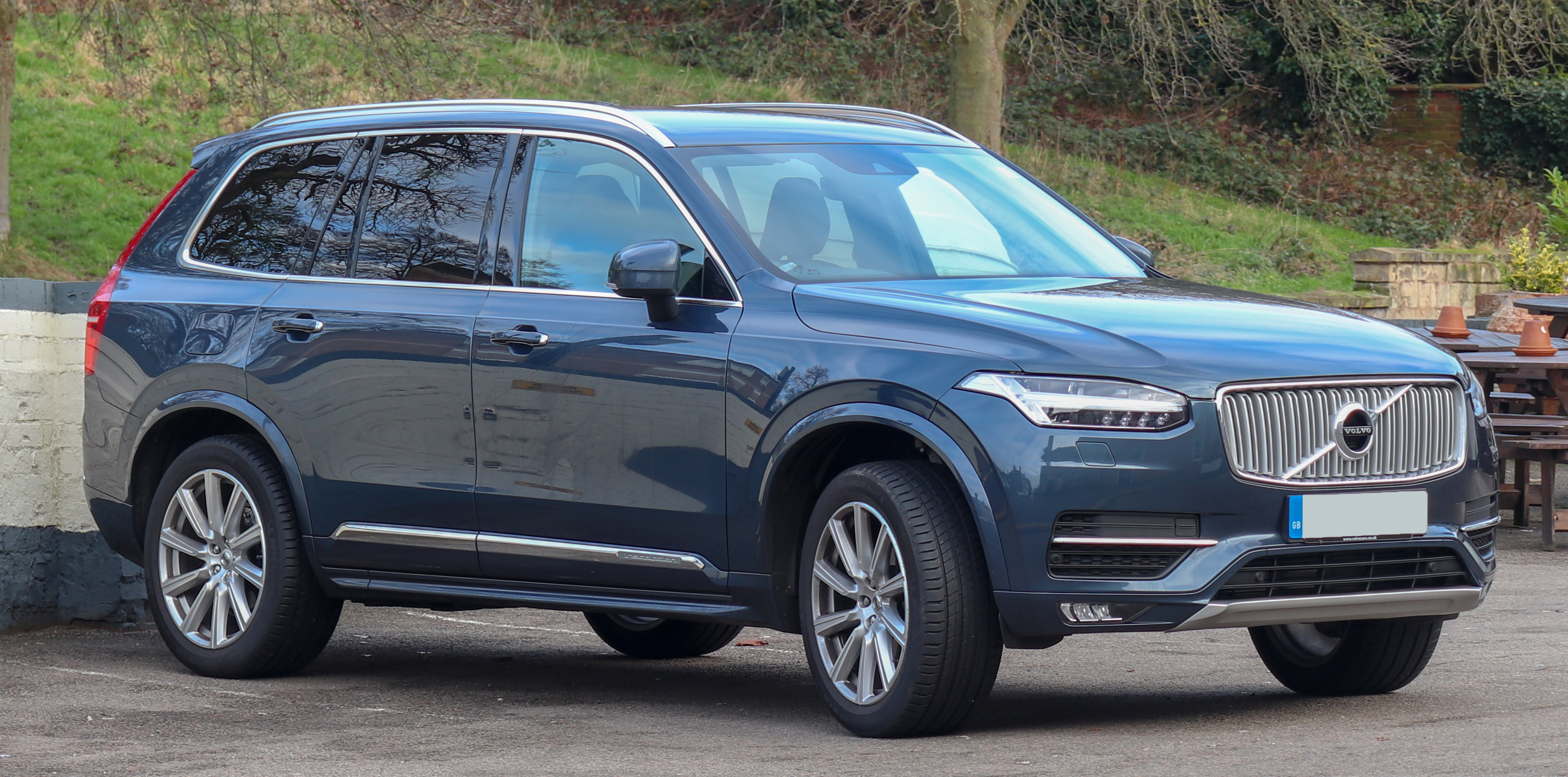 2018 Volvo XC90 Inscription D5 PowerPulse AWD 2.0 Taken in Warwick